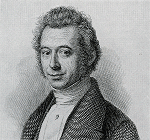 Ferdinand Jacobus Domela Nieuwenhuis (1808-1869). This is the father of the politician, Ferdinand Domela Nieuwenhuis (1846 - 1919).